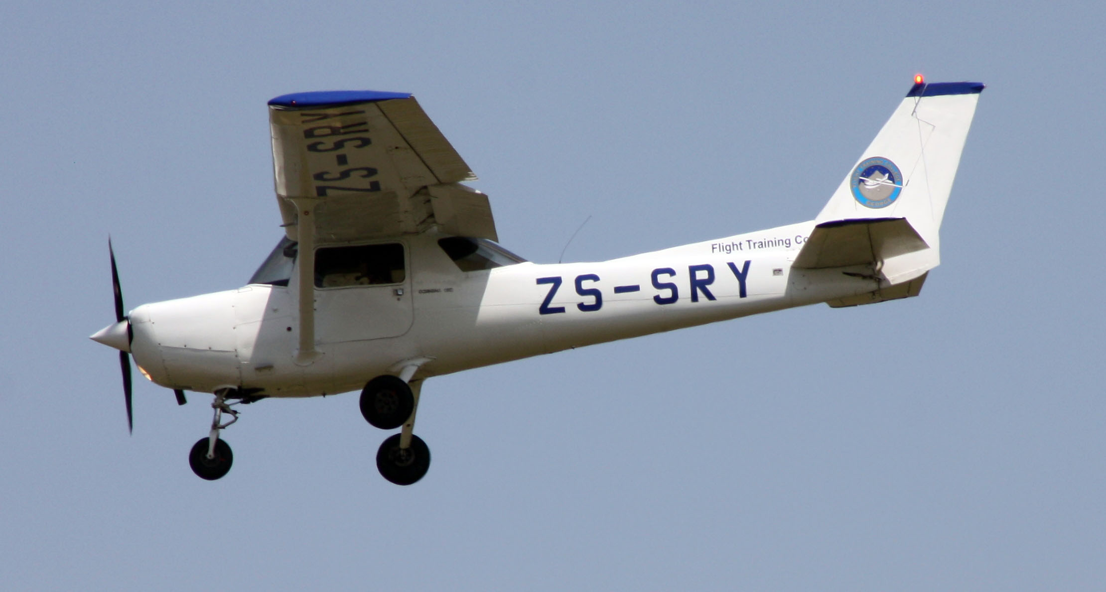 Flight Training College Cessna 152 ZS-SRY